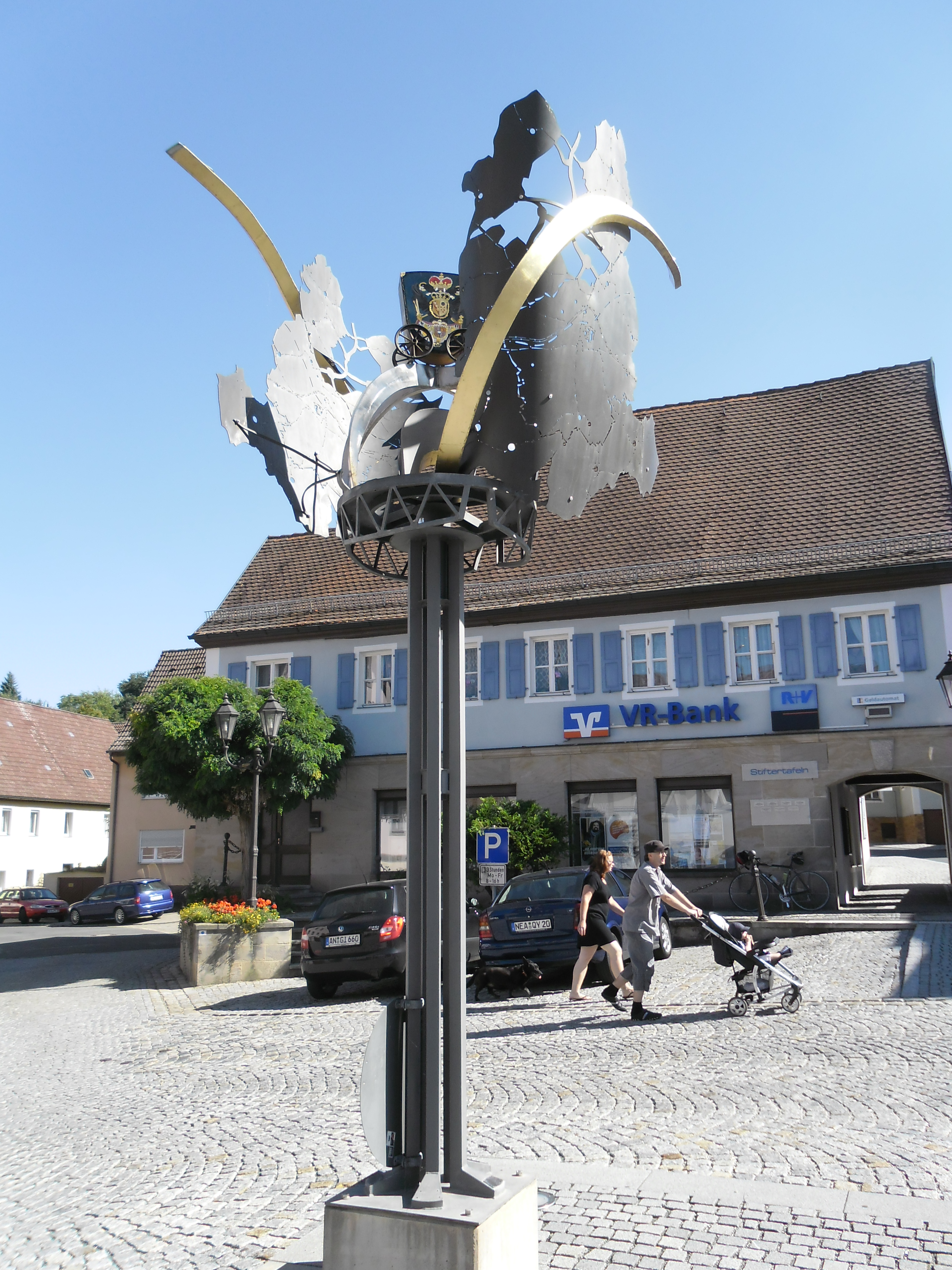 Artwork in metal on the market square of Emskirchen